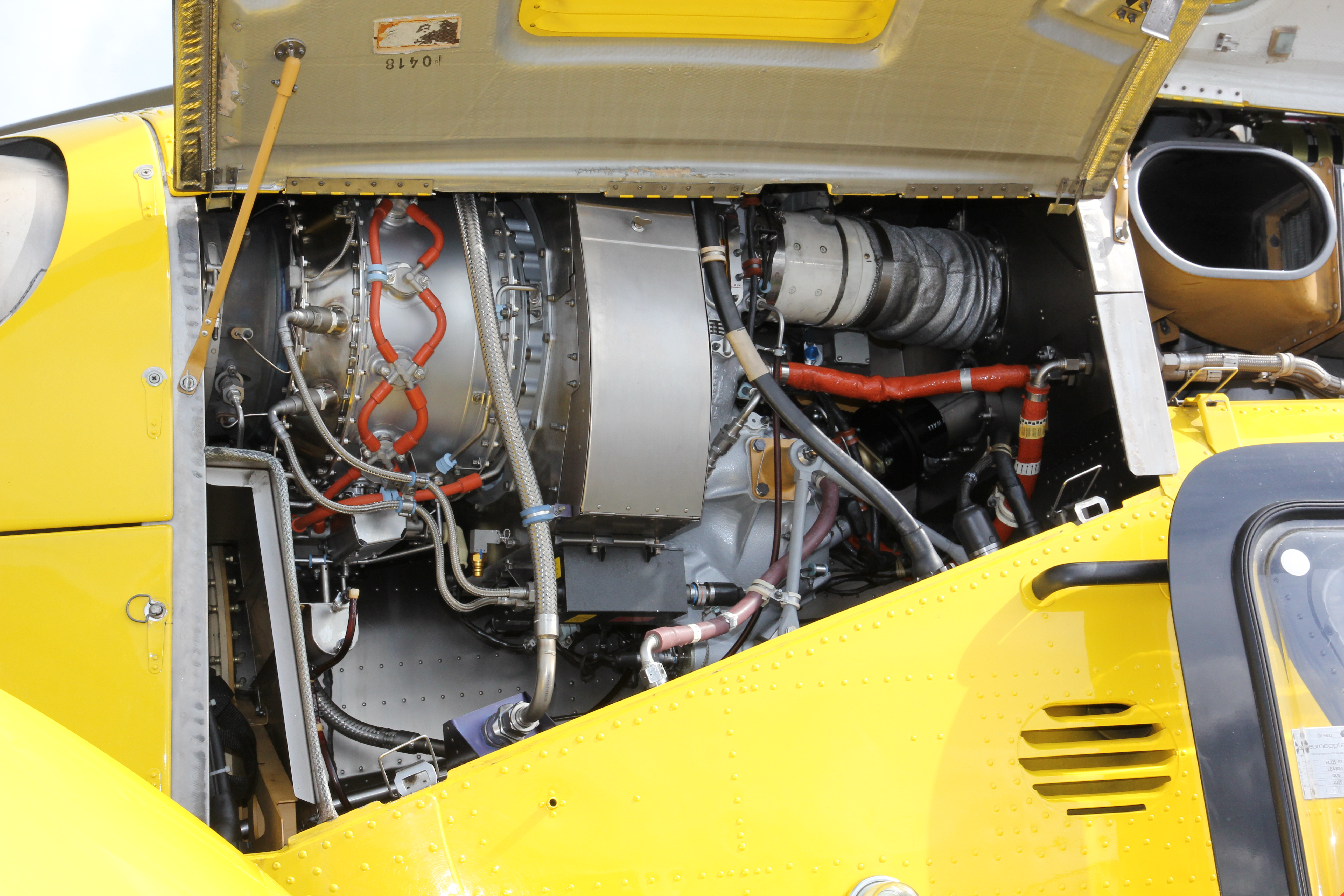 Engine of Eurocopter EC 135 P2 air ambulance helicopter on ground display at Oulu Airport at Tour de Sky 2014 air show.